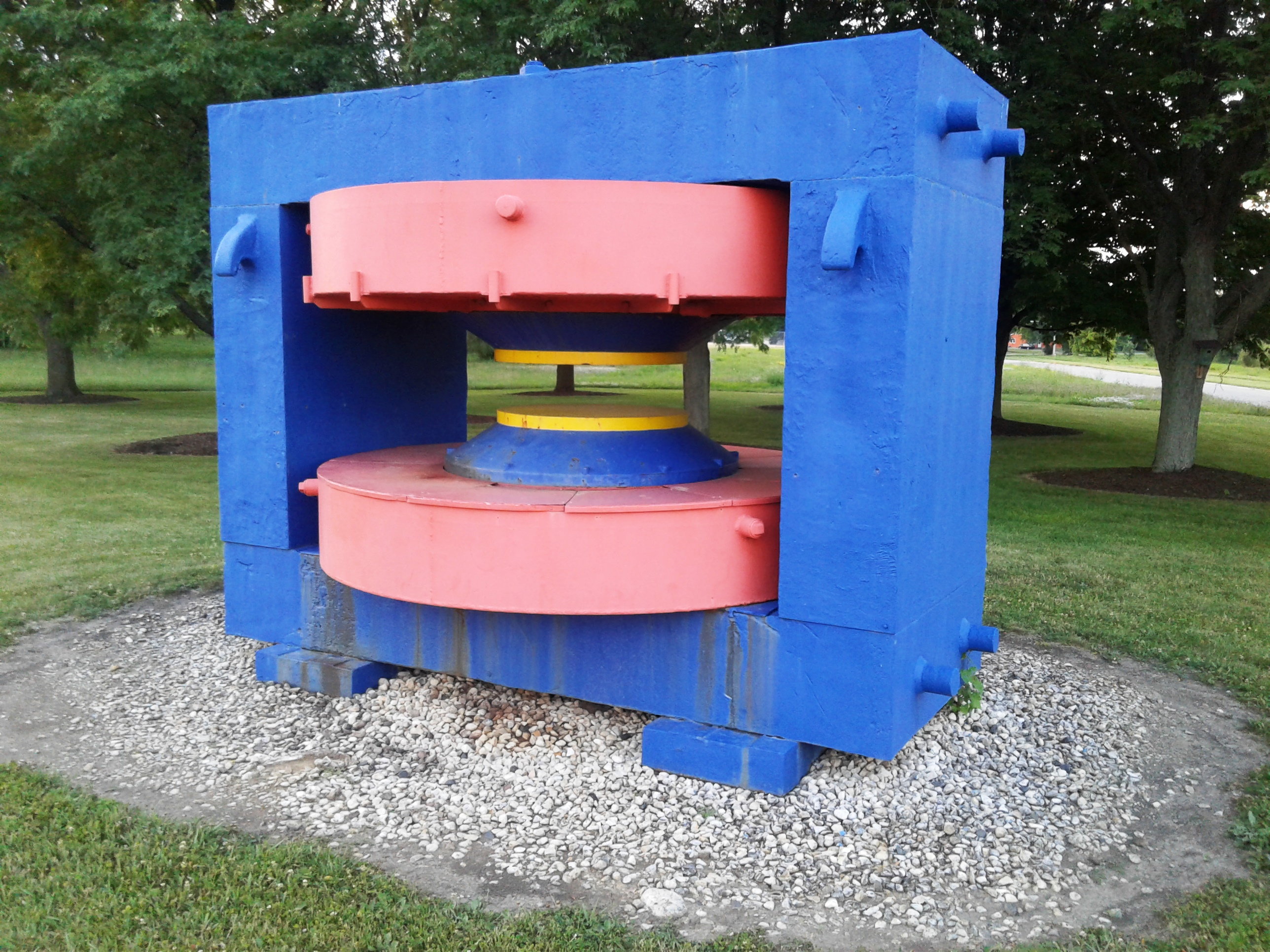 The magnet yoke from a cyclotron, built in 1935 by Professor William D. Harkins and colleagues at the University of Chicago, was moved to Fermi National Accelerator Laboratory near Batavia, Illinois. It is on display in Fermilab's Village at the corner of Batavia Road and Blackhawk Boulevard. Enrico Fermi was among the scientists who conducted research using this cyclotron.